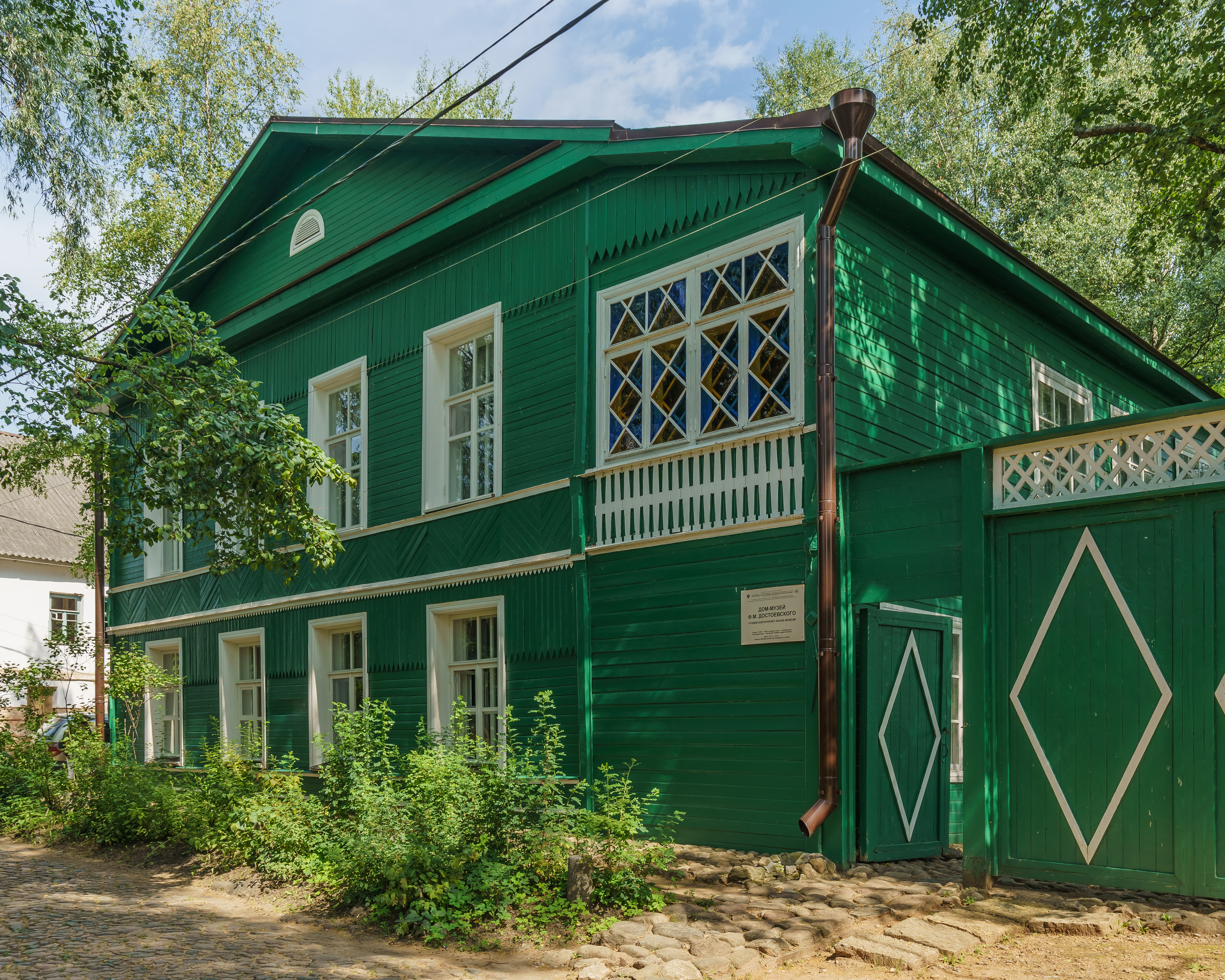 House of Fyodor Dostoevsky (street side) in Staraya Russa, Novgorod Oblast, Russia